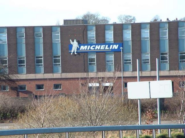 Michelin Tyre Factory 1927 - The French Michelin Tyre Company chooses Stoke as the site of its first British factory.